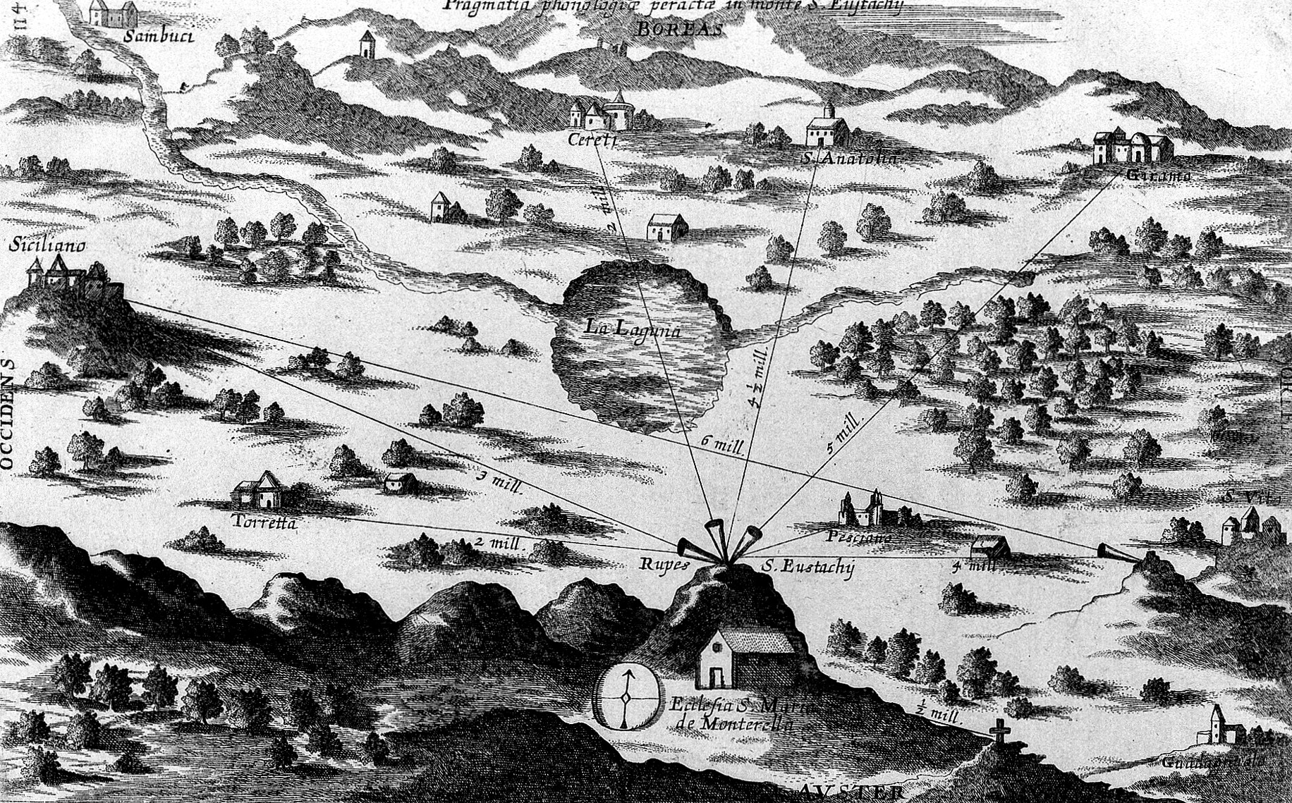 Illustration: 'speaking trumpets Rare Books